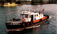 J. W. Westcott II